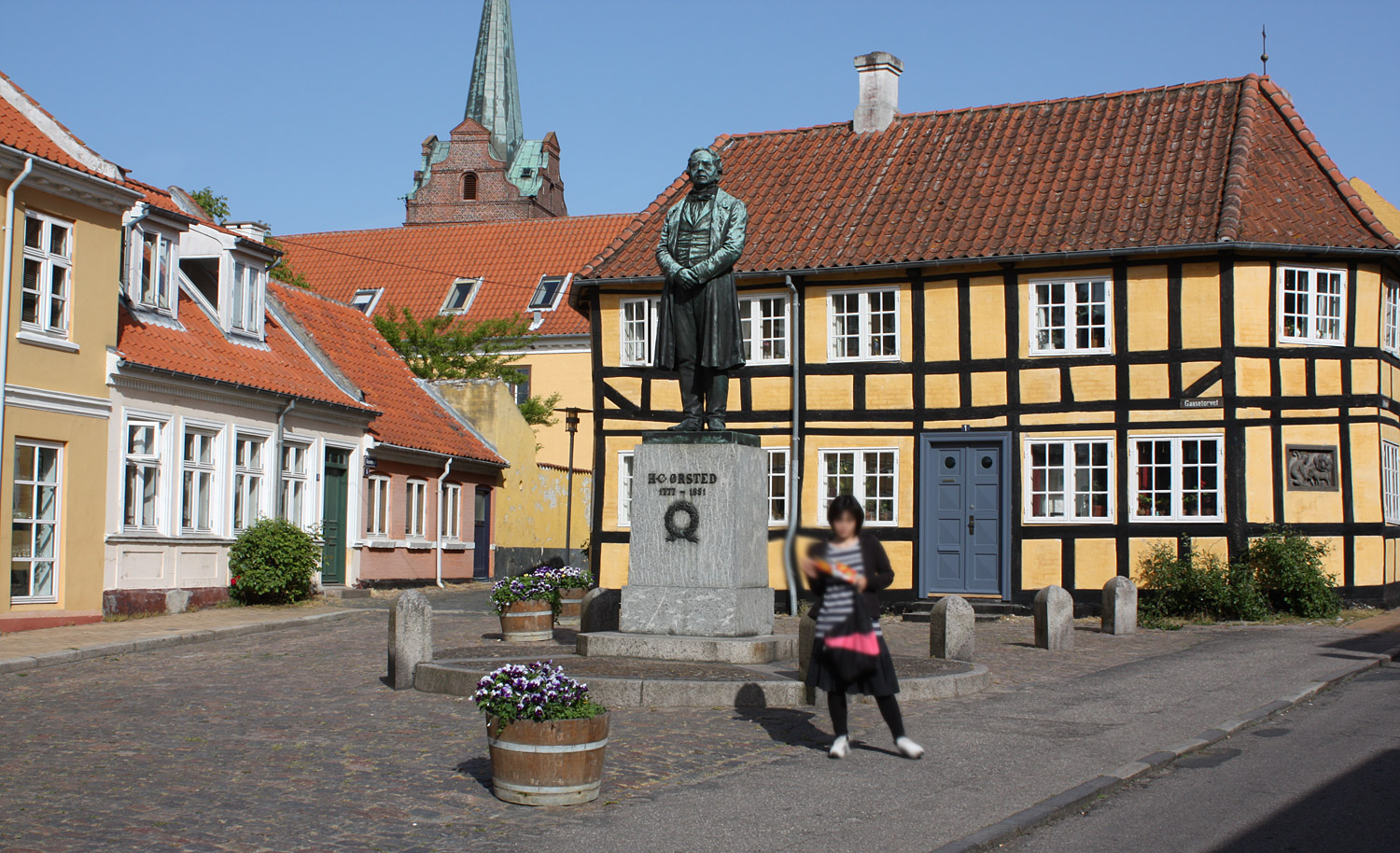 Rudkøbing and the statue of H.C. Ørsted.